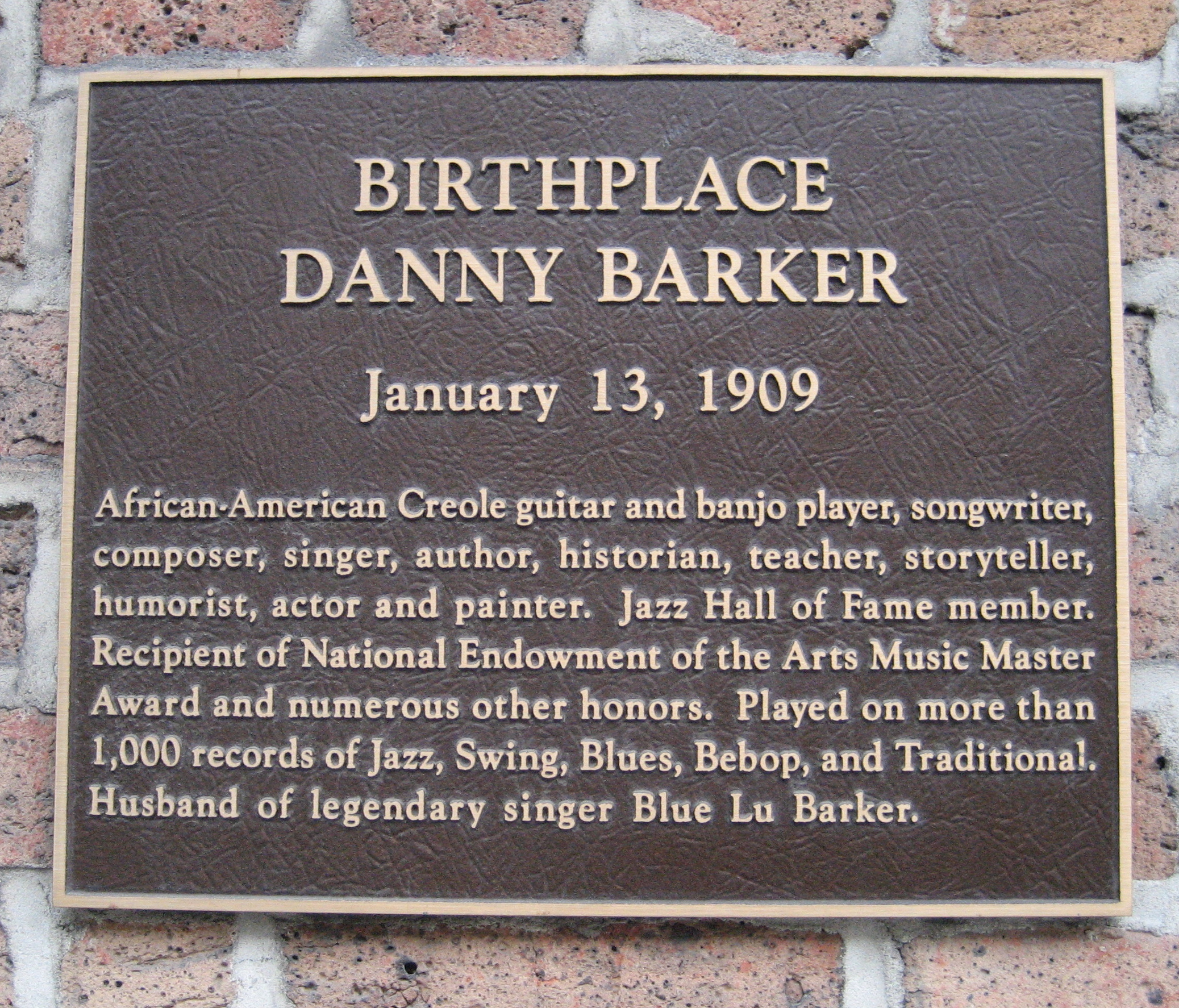 New Orleans French Quarter: Plaque on birth house of jazz musician Danny Barker on Charters Street.